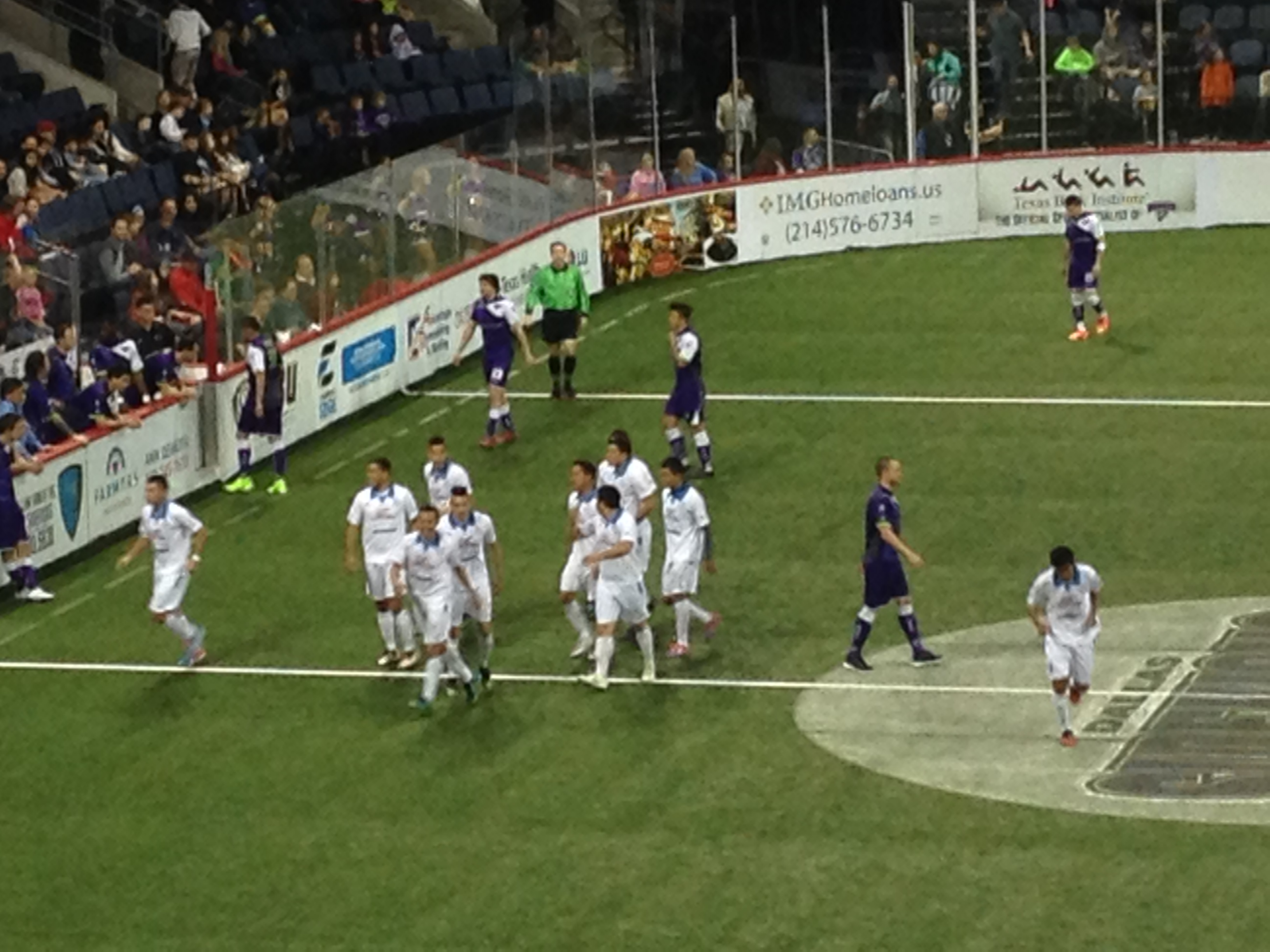 Brownsville Barracudas at Dallas Sidekicks in MASL action.